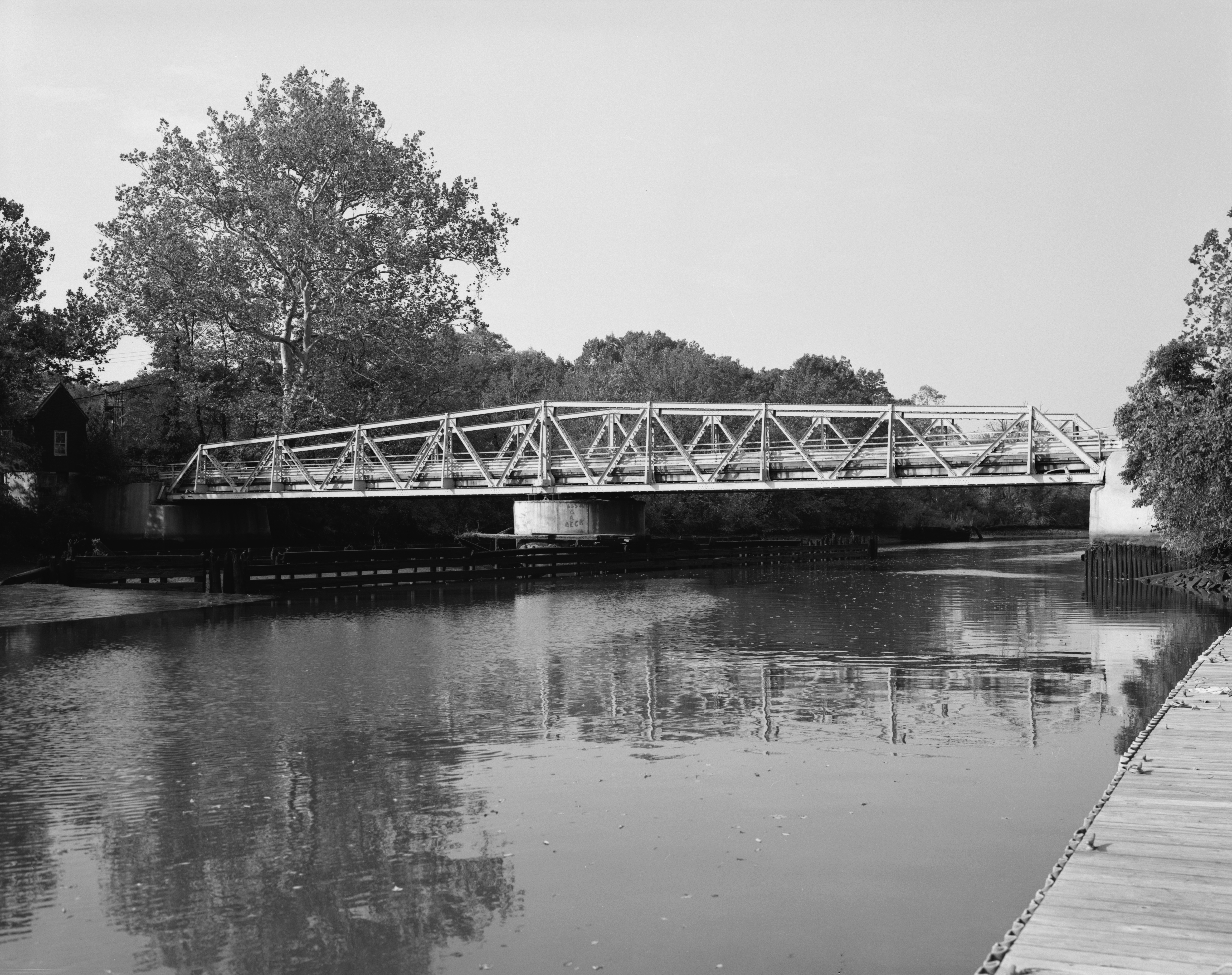 East elevation. View to southwest